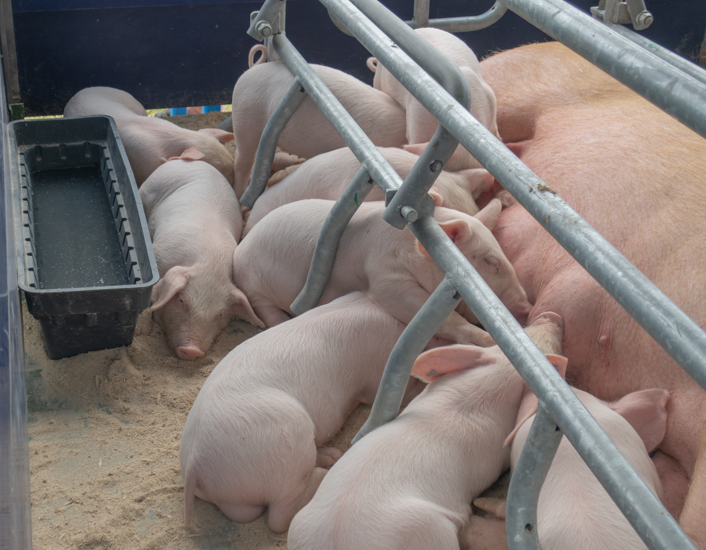 Pigs of Belarusian meat breed. Photo taken at Belagro-2019 exhibition (Minsk district, Belarus)